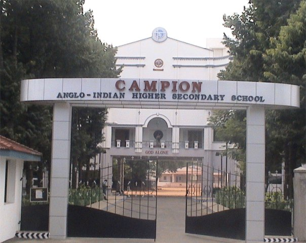 campion school entrance